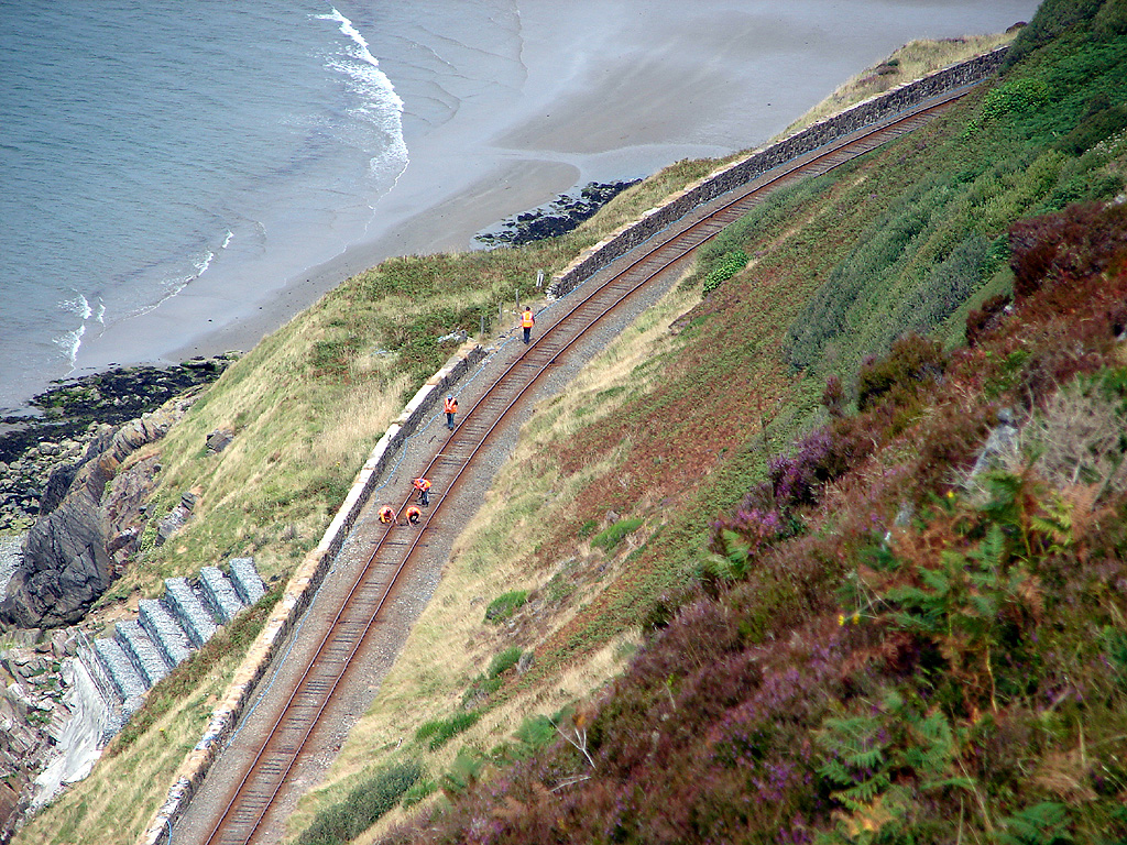 Track repairs near Friog, near to Fairbourne, Gwynedd, Great Britain. A view from about 400 feet up from the cliffs at Gallt Ffynnon yr Hydd.